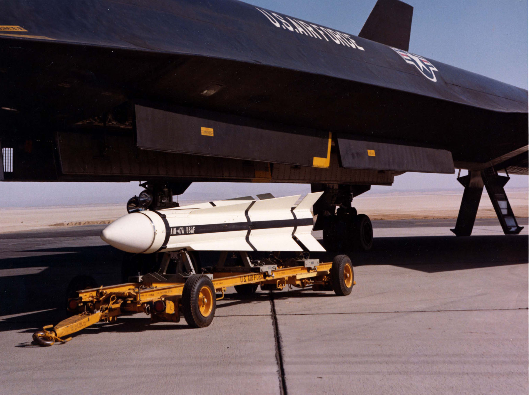 An AIM-47 missile before loading into the Lockheed YF-12A weapons bay. (U.S. Air Force photo)